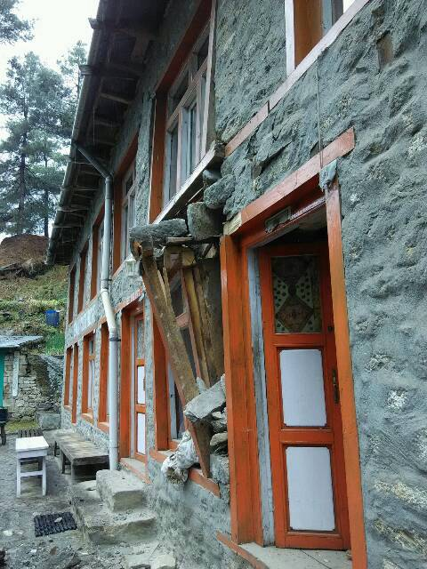 On 25th April 2015 after massive earthquake in Nepal house at Benkar on the way to Everest Base.